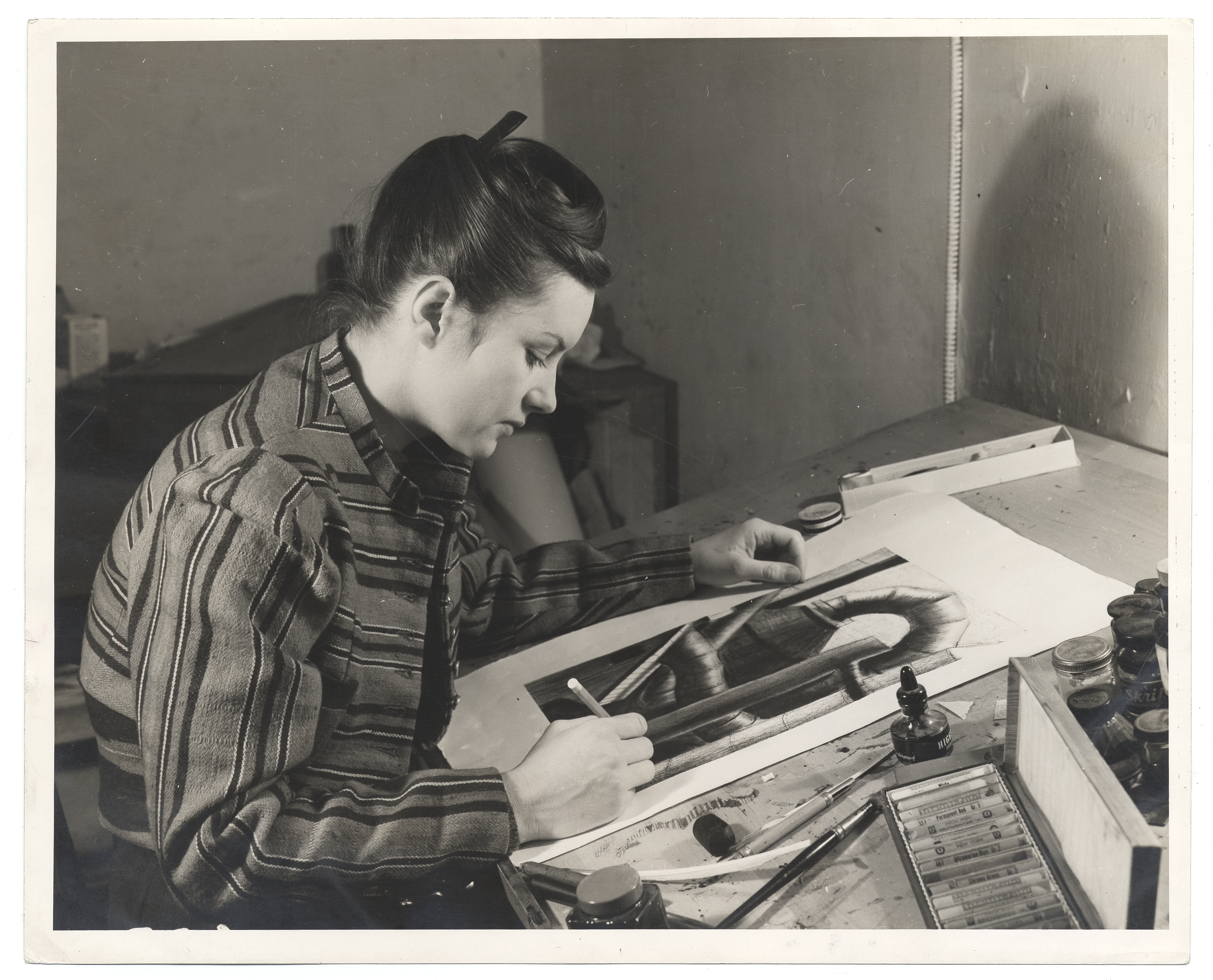 Graham at her drafting table working on a pastel drawing. Photographed for the Works Progress Administration. Identification on verso (handwritten and stamped): Federal Art Project W.P.A.; Photographic Division; 110 King Street; New York City; Artist: Miss Graham [incorrect]; Location: 159 W. 23 St., N.Y.